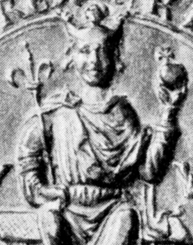 Cropped version of the seal of Danish king Erik Menved. This seal is known from documents dating 1287-1304.